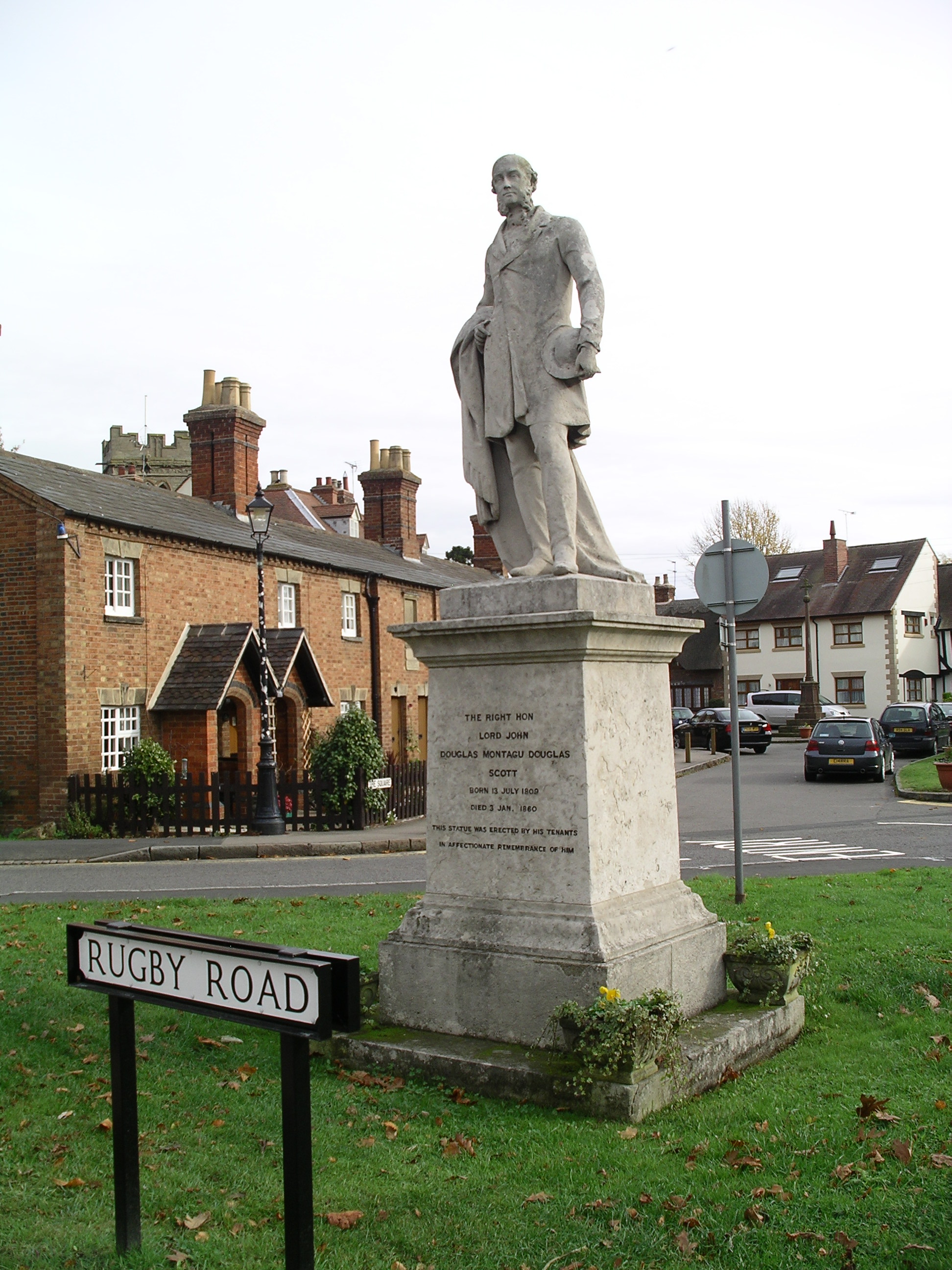 Lord Scott statue in the centre of Dunchurch, Warwickshire, England.